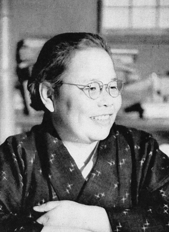 Sakae Tsuboi